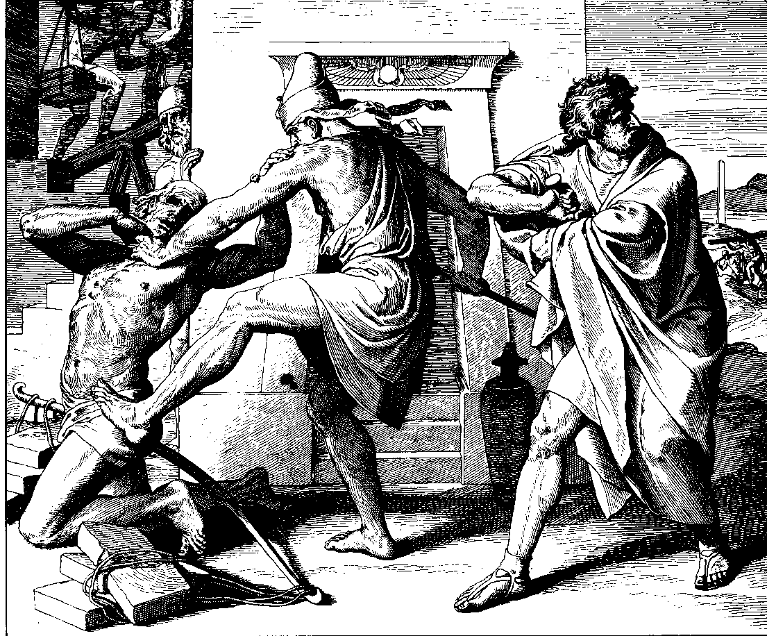 Woodcut for "Die Bibel in Bildern", 1860.